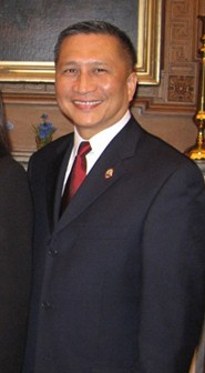 Lieutenant Governor of Guam, Michael W. Cruz, at a meeting with Secretary of the Interior Dirk Kempthorne